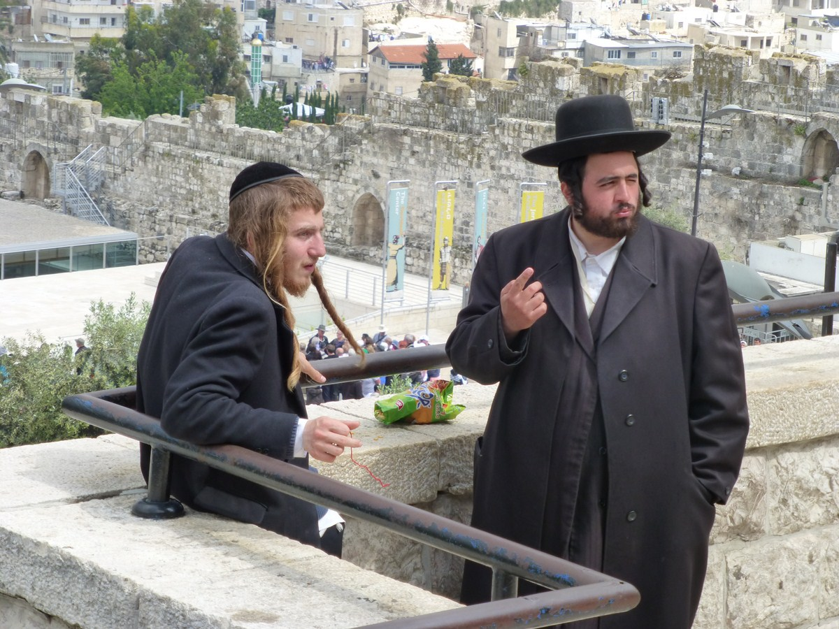 Old Jerusalem, Ma'alot Rabbi Yehuda Ha-Levi, Two orthodox Jews (Jerusalem, 2013) Jerusalem